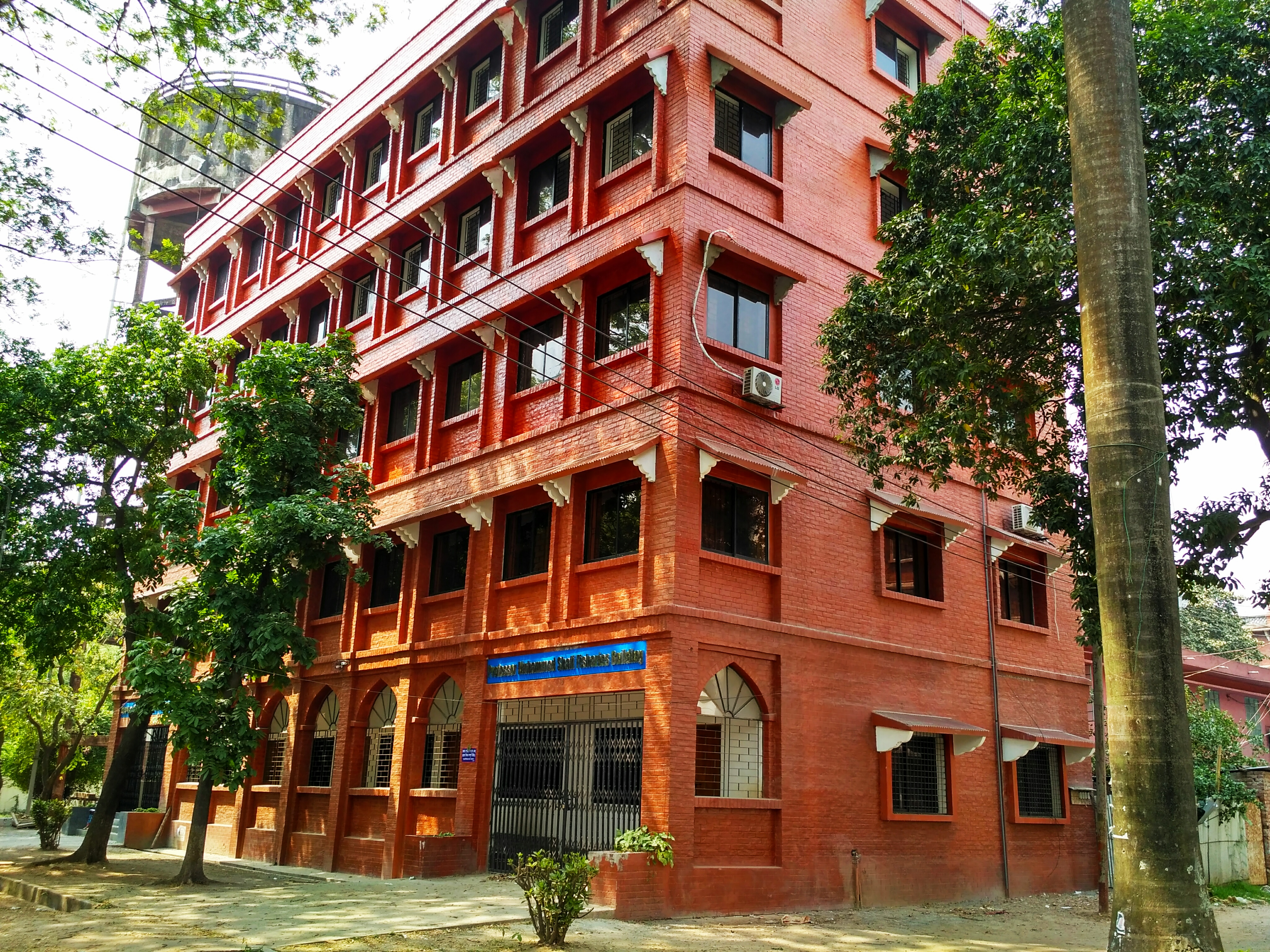 Professor Muhammed Shafi Fisheries Building, Curzon Hall area, Dhaka University. (29.03.2019)